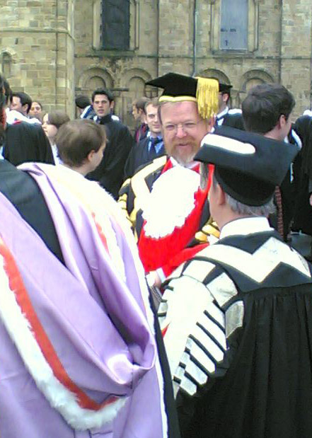 Bill Bryson was appointed Chancellor of Durham University in 2005. This file has been extracted from another file: Chancellor Bill Bryson at Degree Ceremony Durham University.jpg Chancellor Bill Bryson at Degree Ceremony